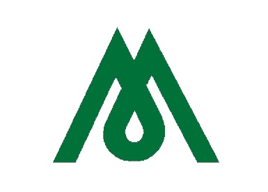 Flag of Mitake Gifu